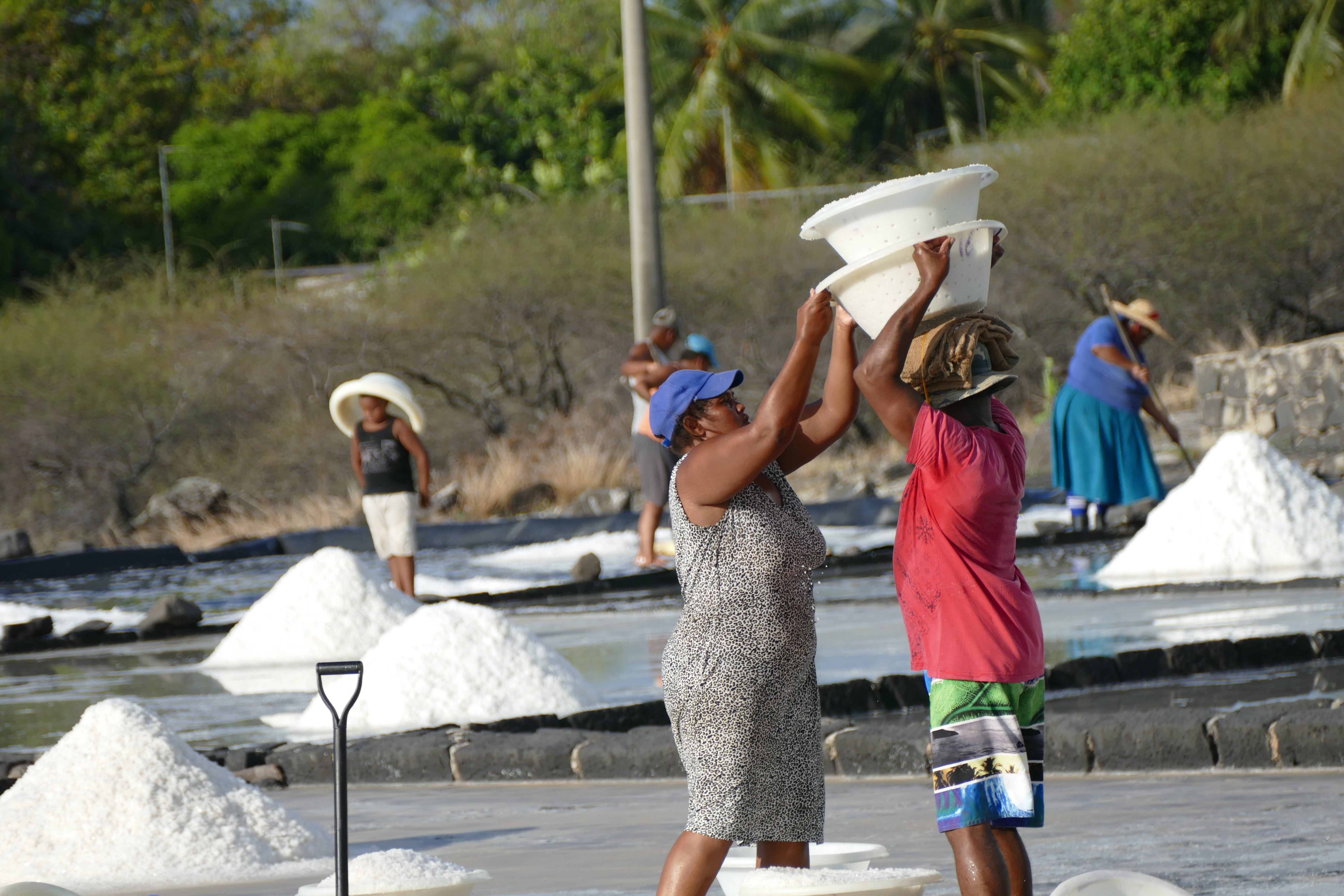 This is an image of "African people at work" from Mauritius